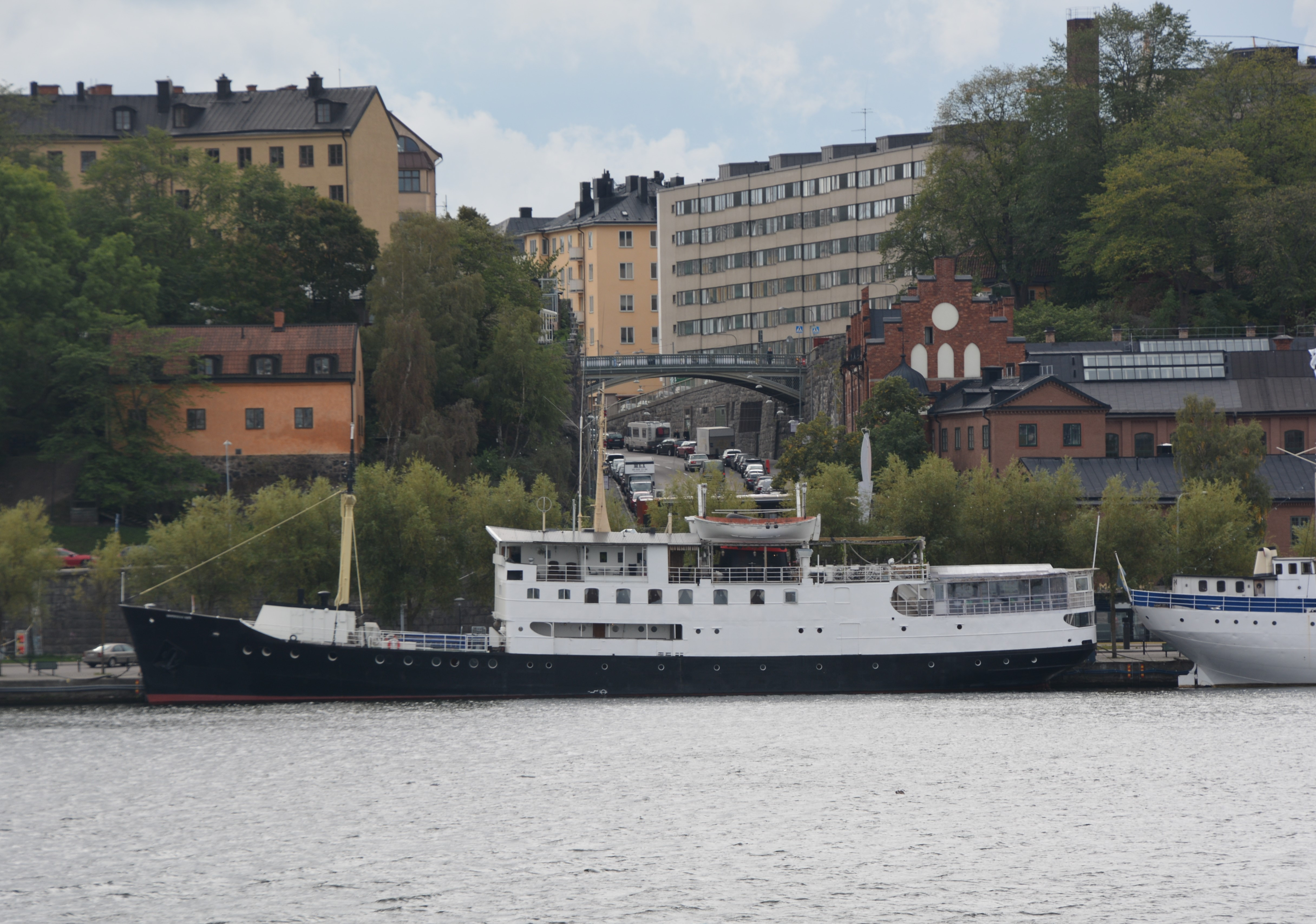 M/S Kronprinsesse Martha, earlier S/S Kronprinsesse Märtha, semi-permanently moored at Söder Mälarstrand in Stockholm in Sweden as hotel ship.